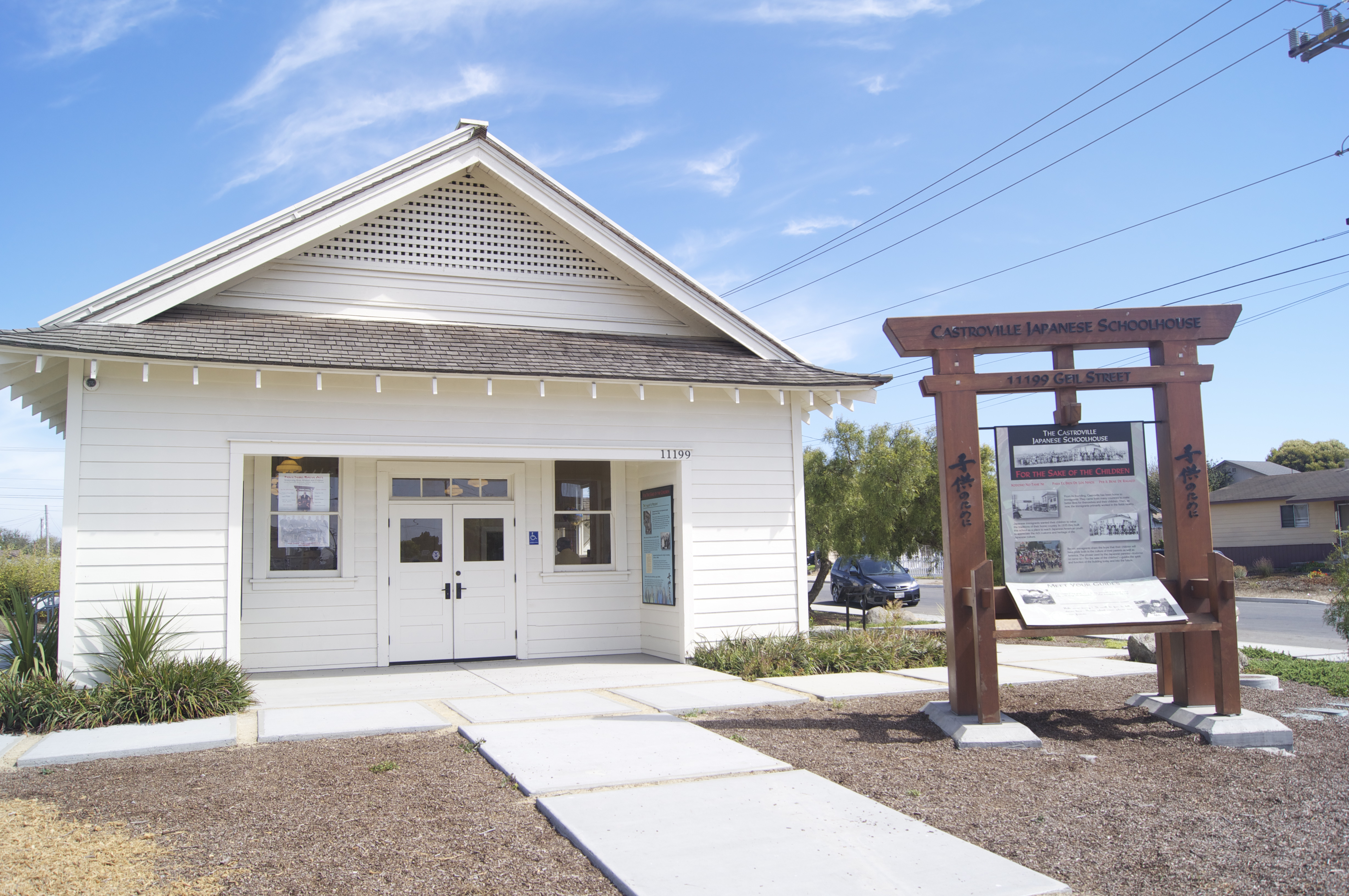 Japanese Language Schoolhouse was built in 1930.